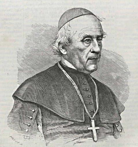 Portrait of the elderly Béla Bartakovics